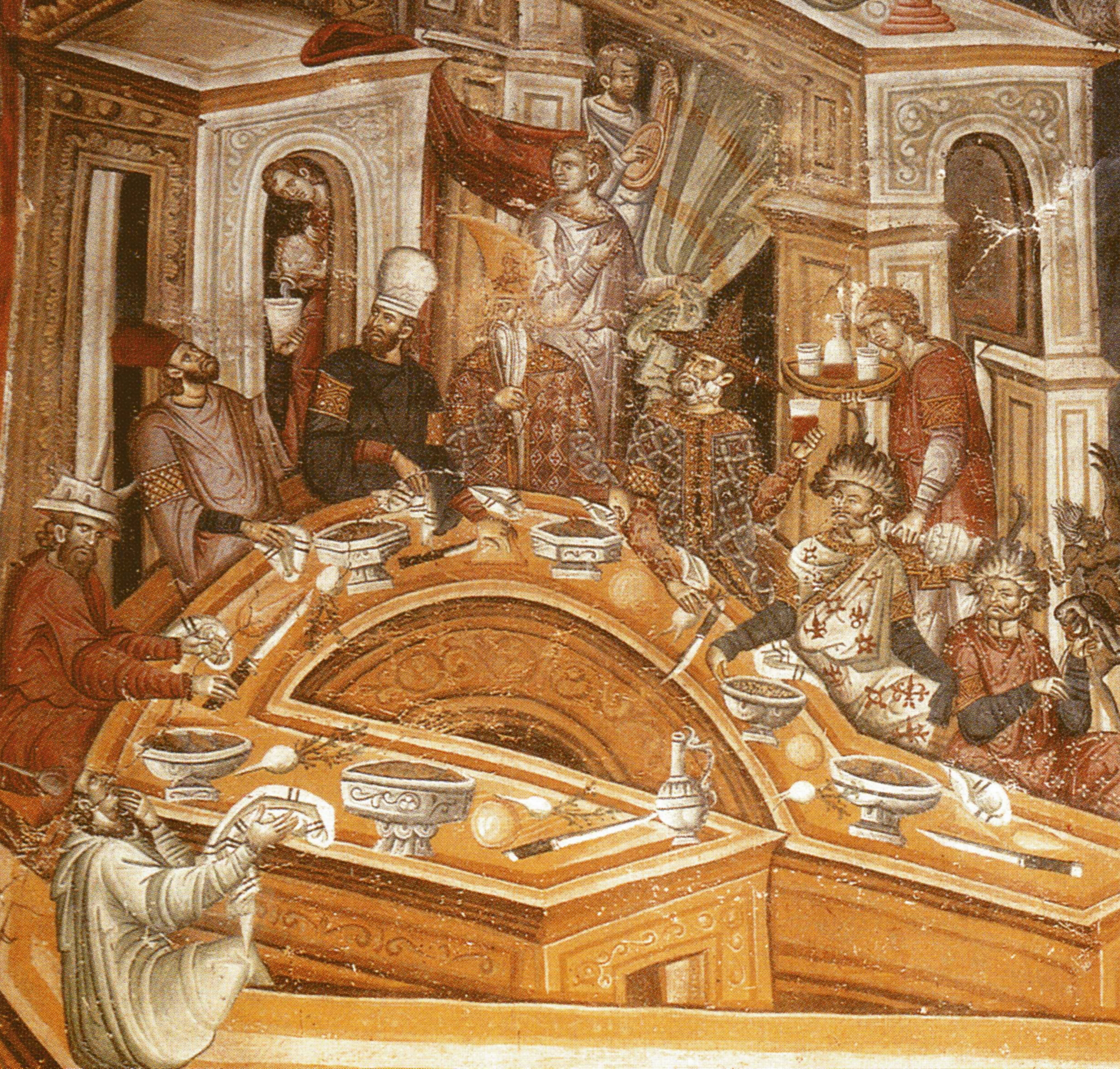 Scene of festive gluttony: detail of the Heavenly Ladder wall painting, Vatopedi monastery